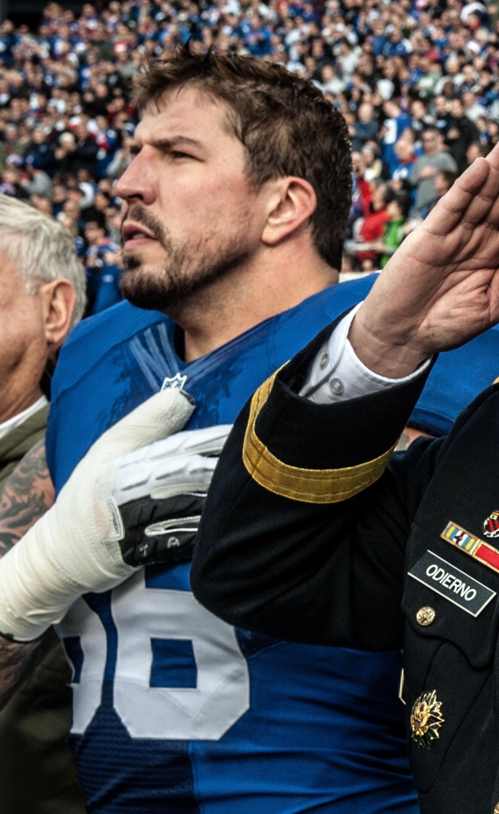 New York Giants guard, David Diehl, in a game against the Oakland Raiders on November 10, 2013.